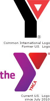 YMCA logo (international and USA)